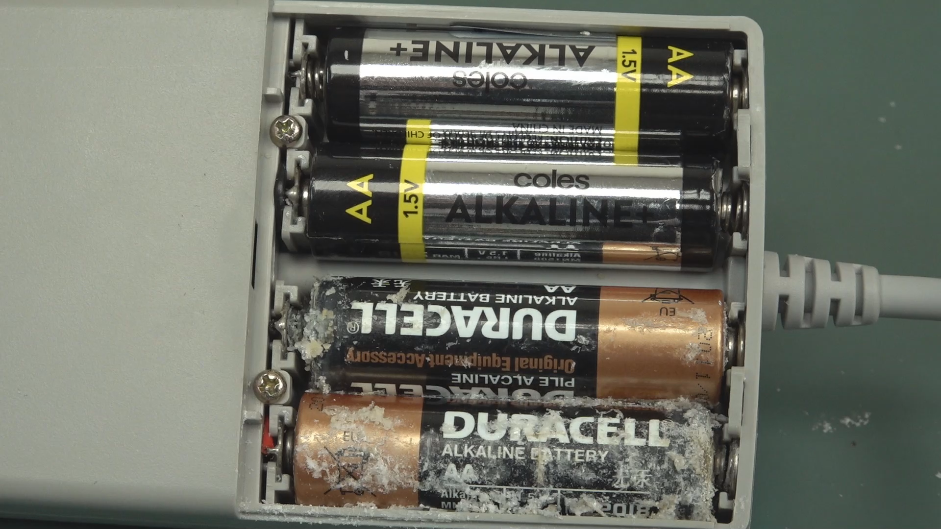 Potassium compound leakage in an alkaline battery. The potassium hydroxide within the battery reacts with carbon dioxide in the air over time (once the seal has burst) to form potassium carbonate.